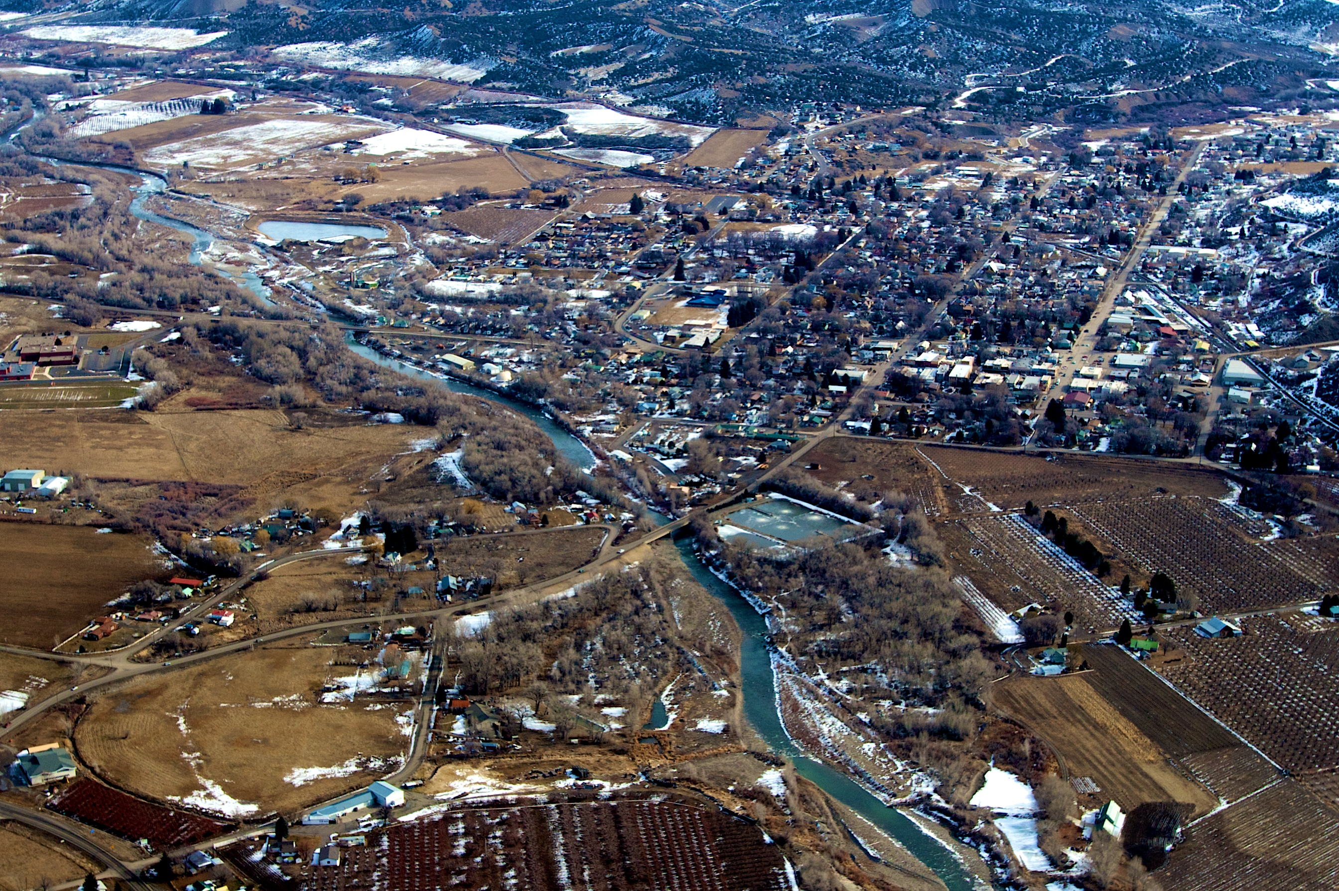 View of Paonia Colorado